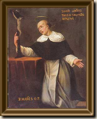 Blessed Manés de Guzmán, brother of St Dominic